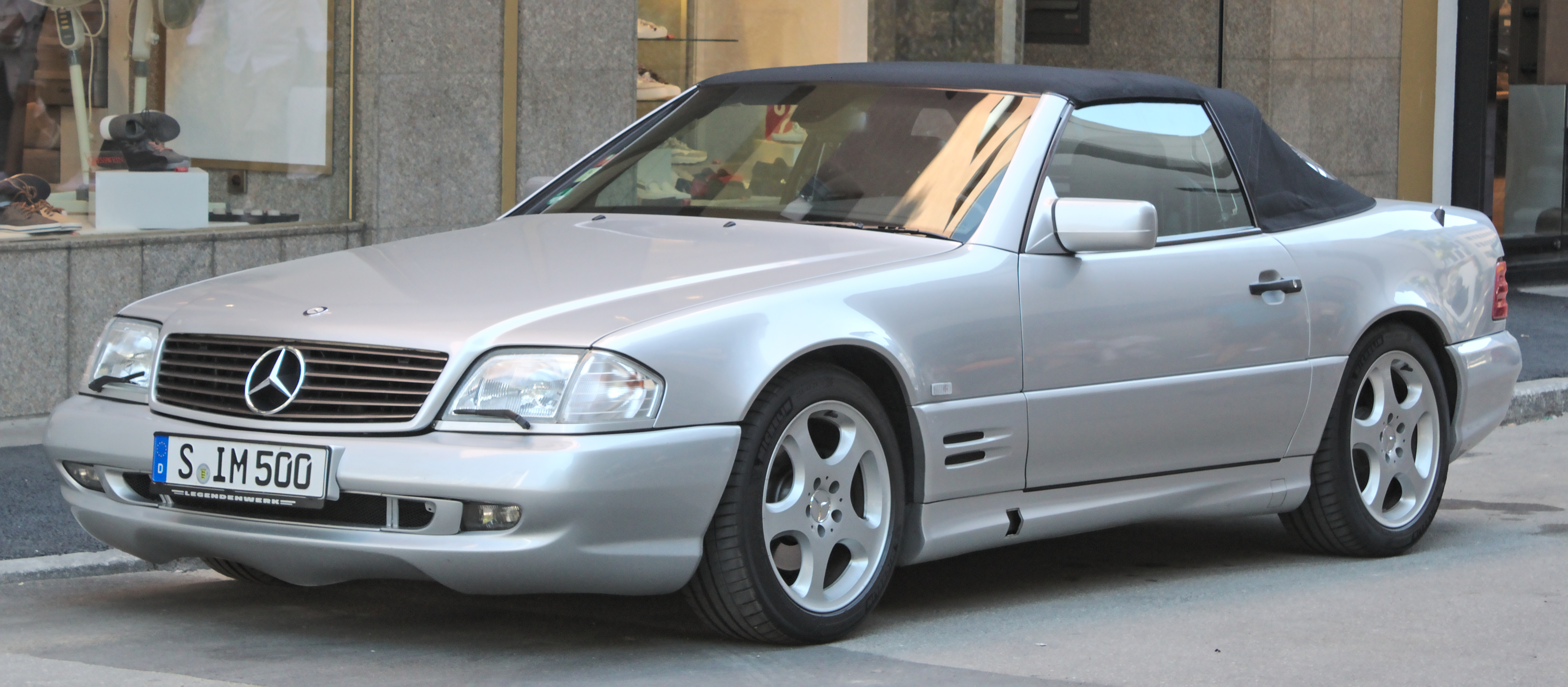 Mercedes-Benz_R129_(1998-2001) in Stuttgart